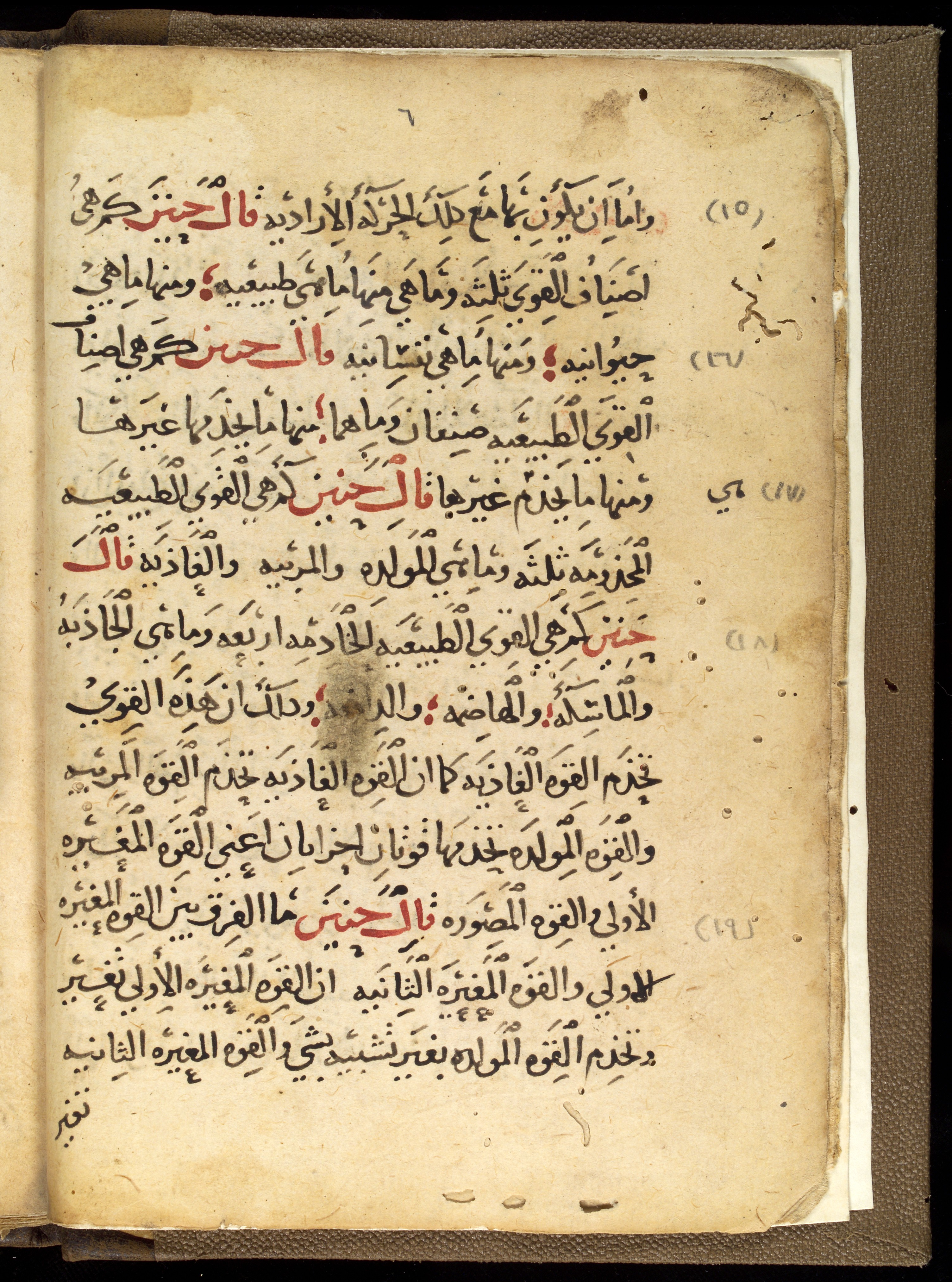 Page from 'Masa'il fi' t-Tibb' an Arabic expose on medical knowledge in the form of questions and answers Asian Collection Keywords: Arabic